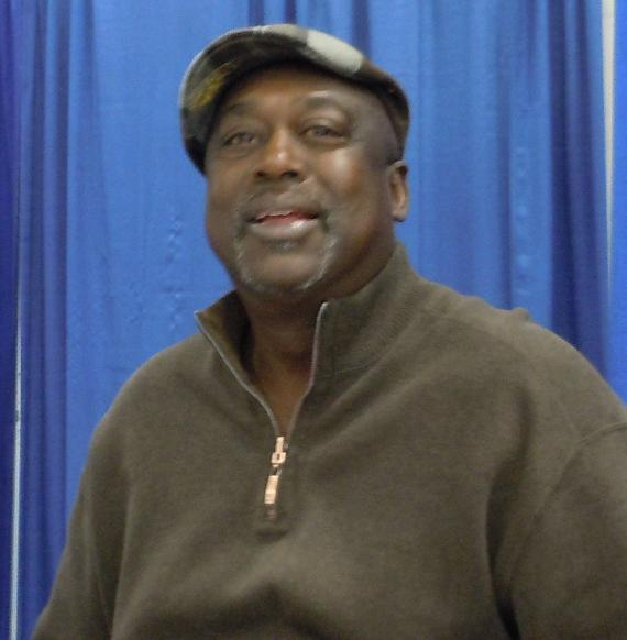 Gary Matthews at an autograph signing in Oaks PA 2011 04 16